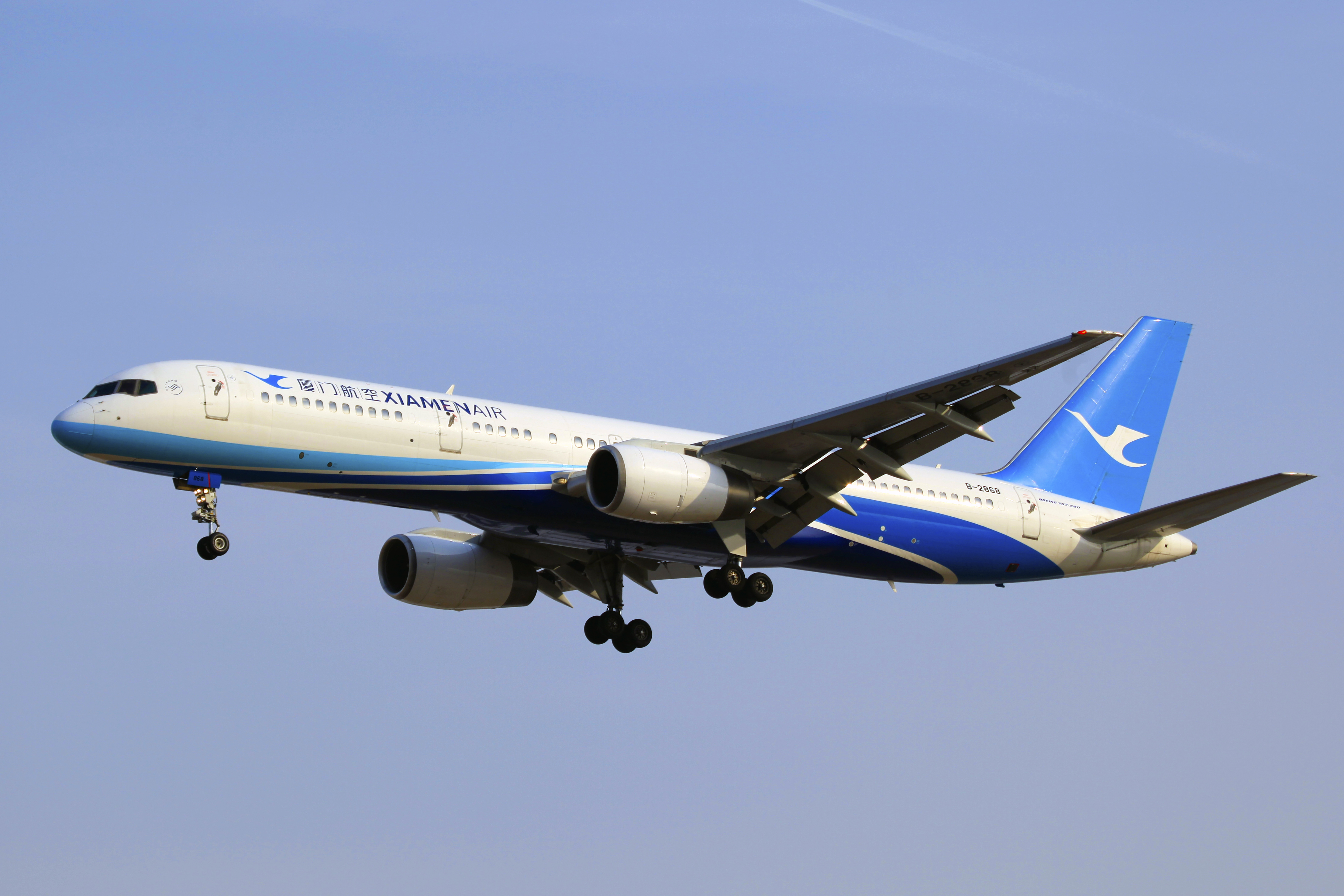 B-2868 | Xiamen Airlines | Boeing 757-25C | Beijing Capital International Airport [PEK]